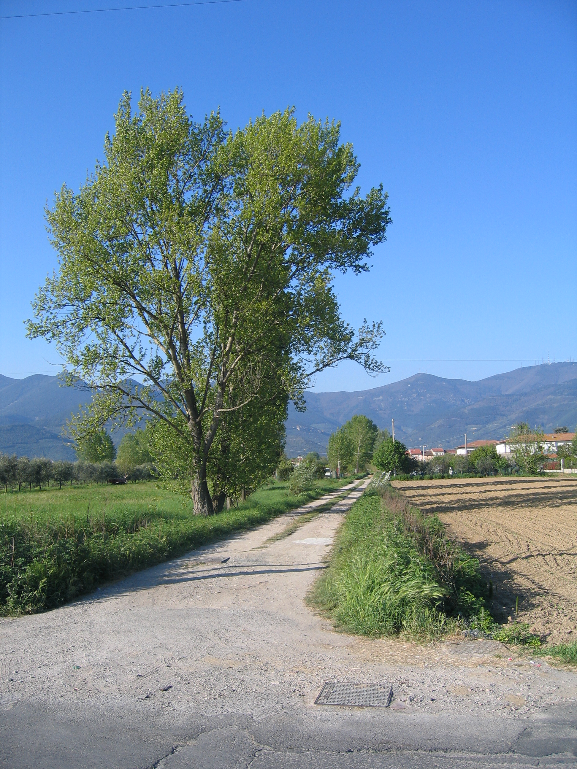 Trackbed of the former Navacchio-Calci branch